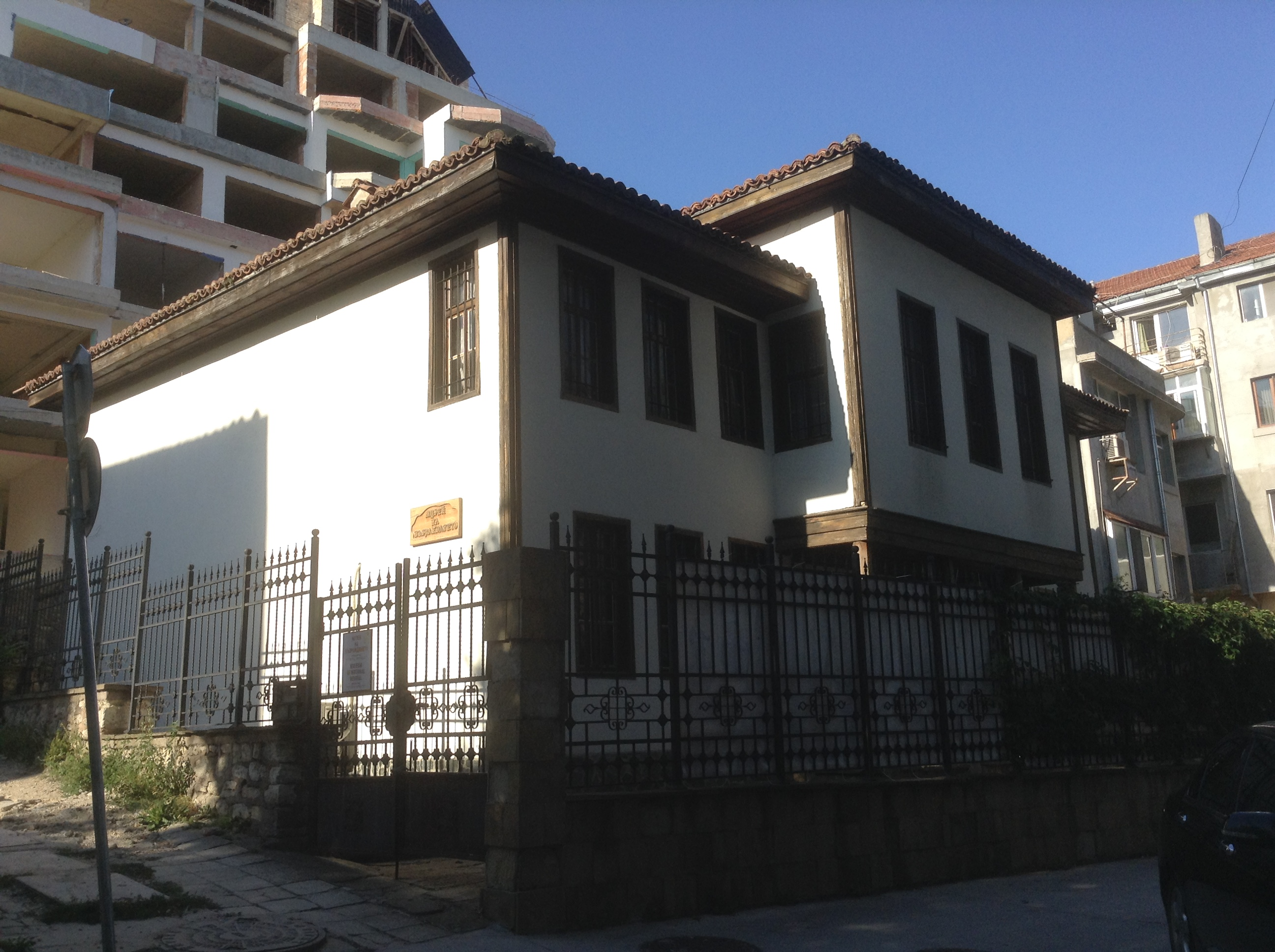 A XIXth century building that houses National Revival Museum at 21 Dr Ludwik Zamenhof Str. in Varna, Bulgaria The code number of this Zamenhof/Esperanto object is bg-067. Wikidata has entry Q56849171 with data related to this item.